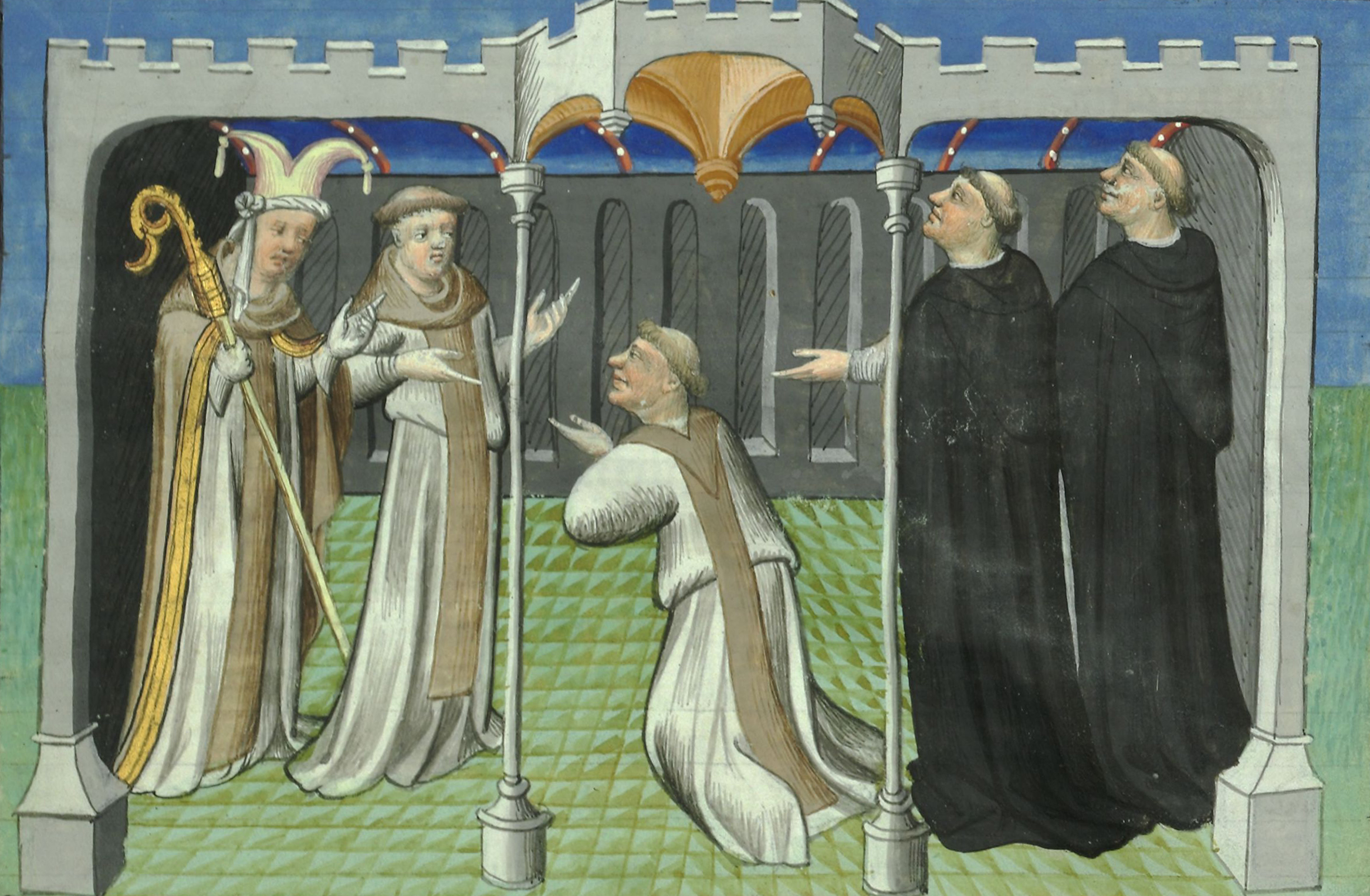 Ricoldo of Montecroce and Nestorians.